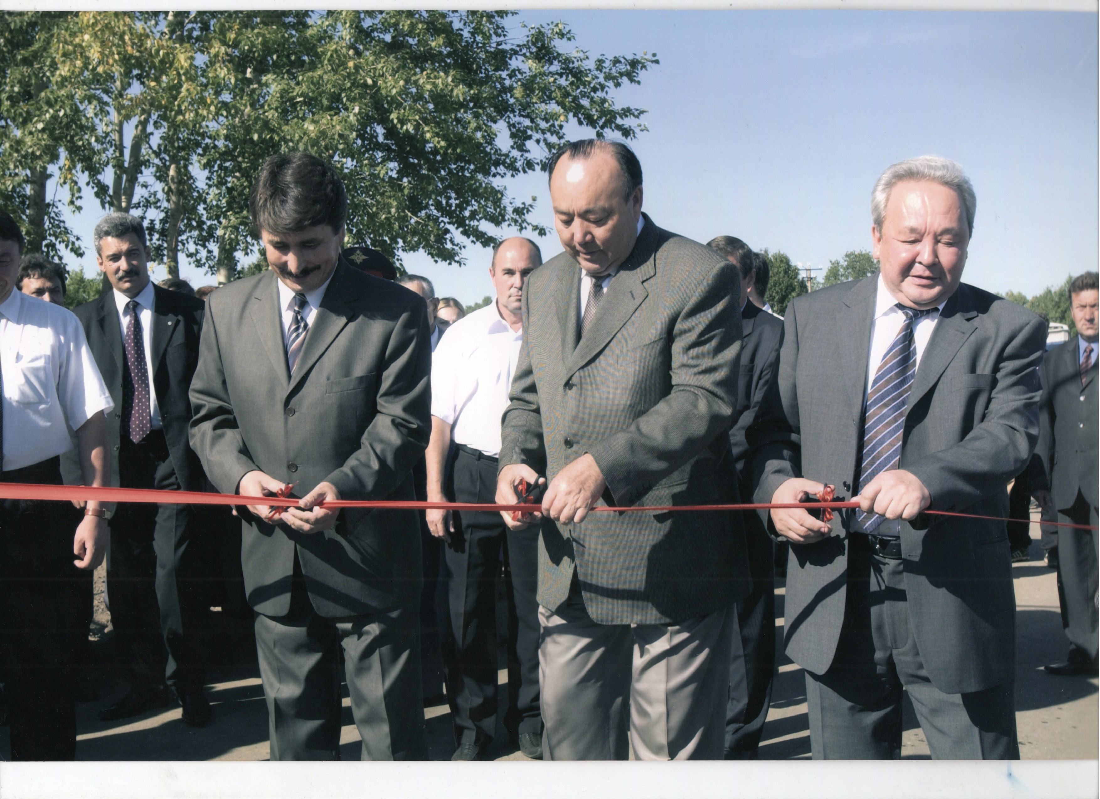 Ахметов Хамза Раисович